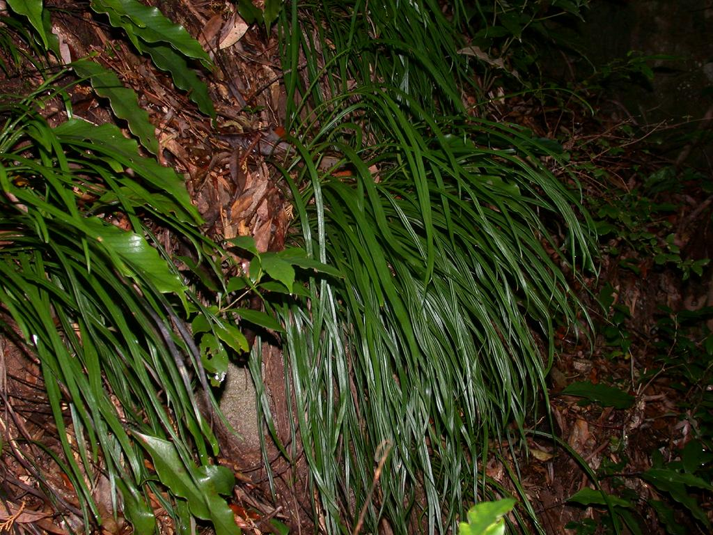 Name Vittaria flexuosa Fee（シシラン） Family Vittariaceae(Pteridophyta) Date;2006,11;Susami town, Wakayama prefecture, Japan Author;Keisotyo